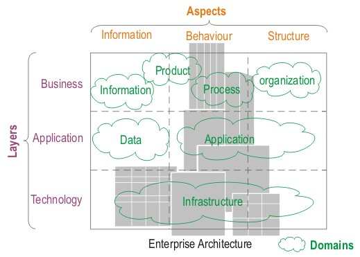 Global illustration of the ArchiMate Architectural Framework based on Henk Jonkers (ed.) et al. (2004) Concepts for Architectural Description Enschede: Telematica Instituut